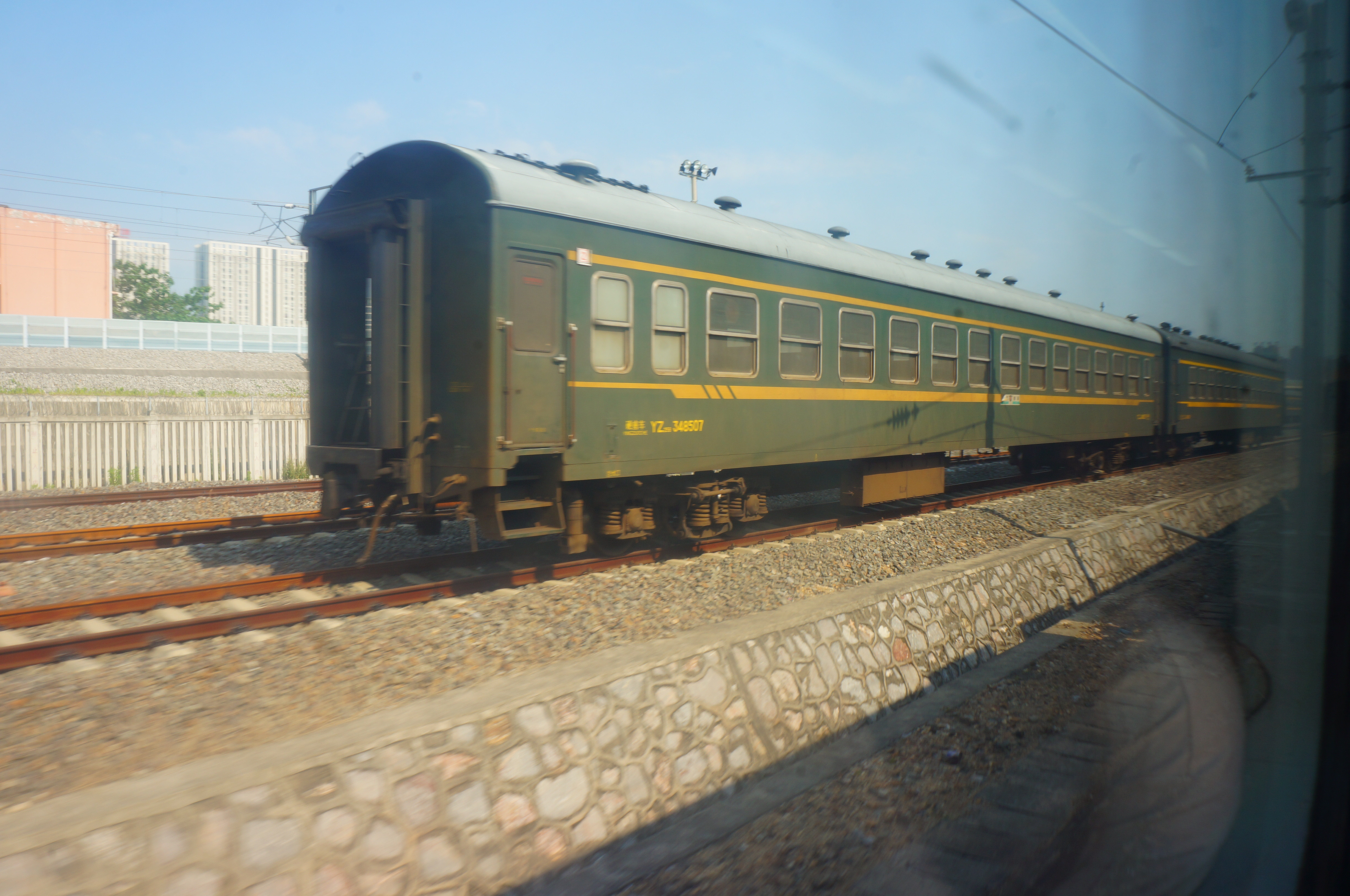 201705 YZ25B-348507 at Storage Yard of Wuhu Station. Nice to see you